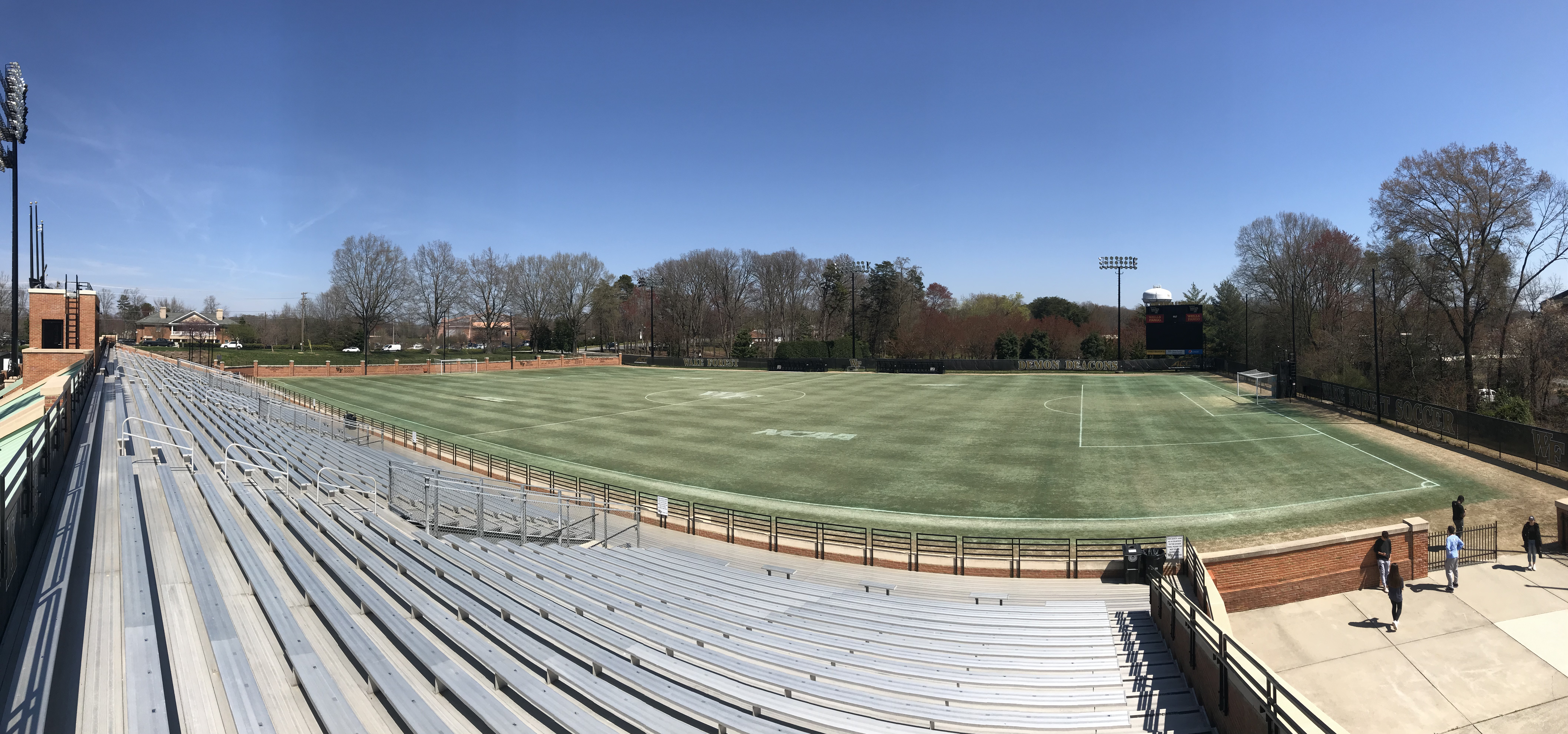 Photo of Spry Stadium seats and field